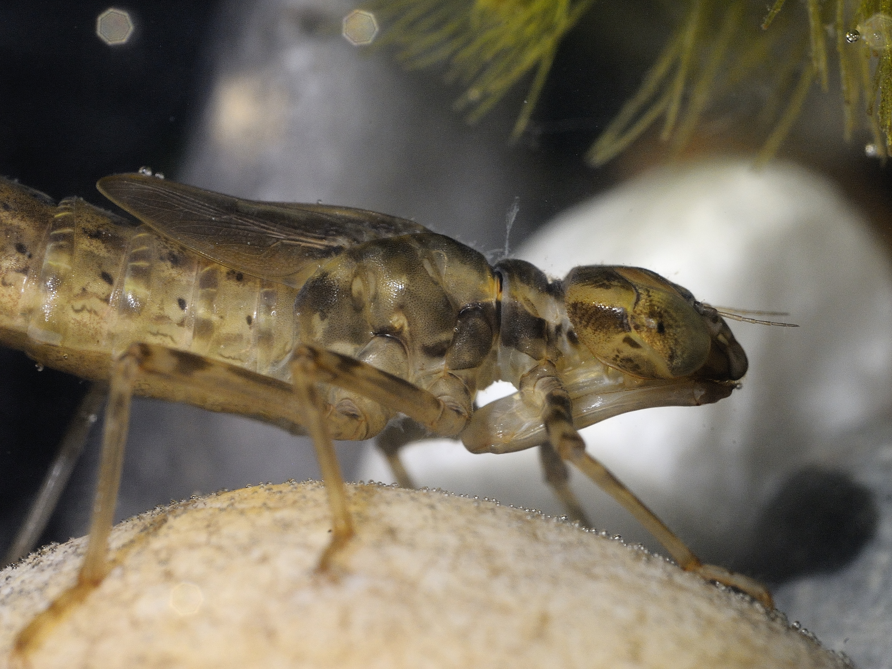 Aeshna cyanea nymph, from a local pond, now accidently overwintering in a fish tank